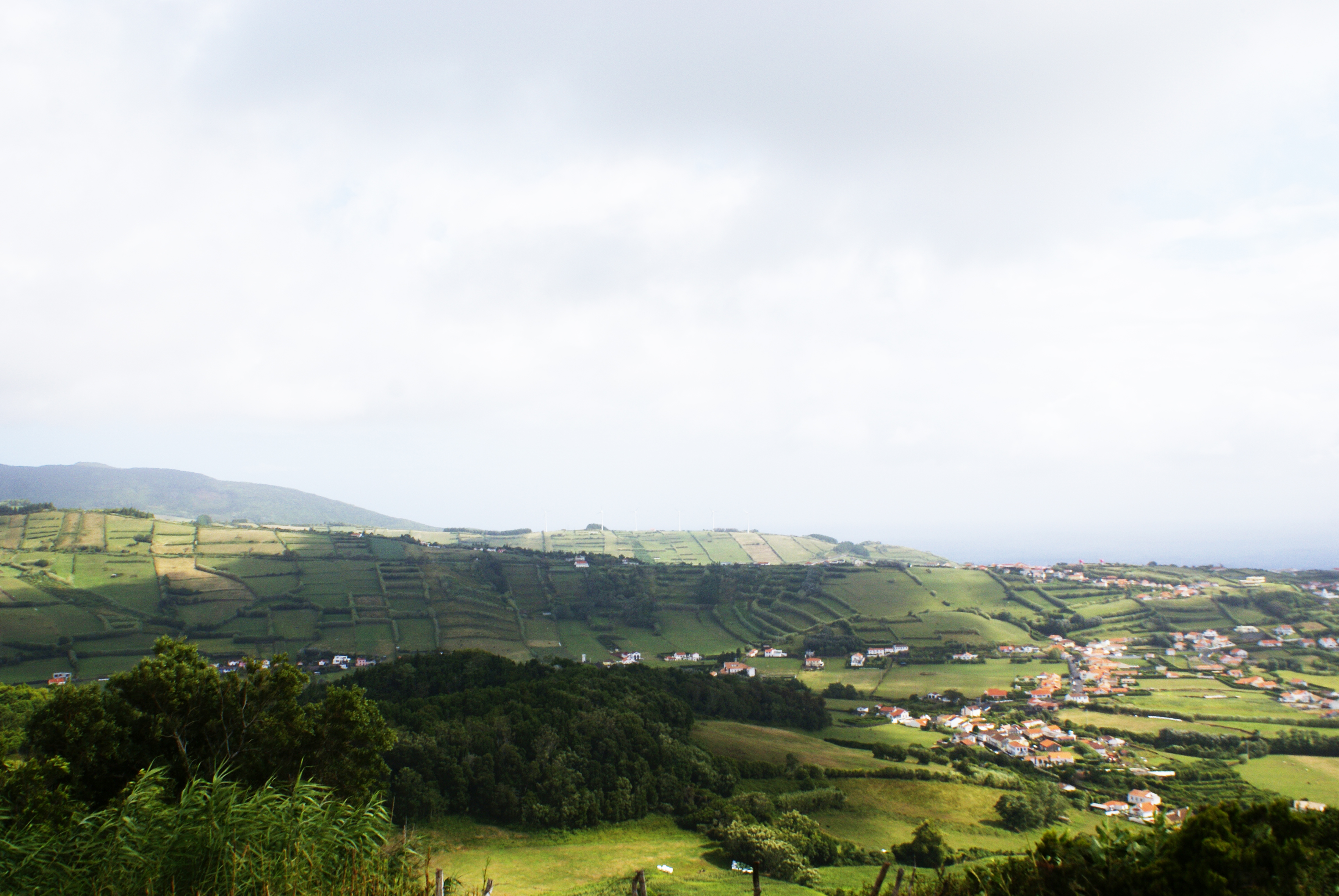 Miradouro do Monte Carneiro, Santo Amaro e Farroubo, concelho da Horta, ilha do Faial, Açores, Portugal